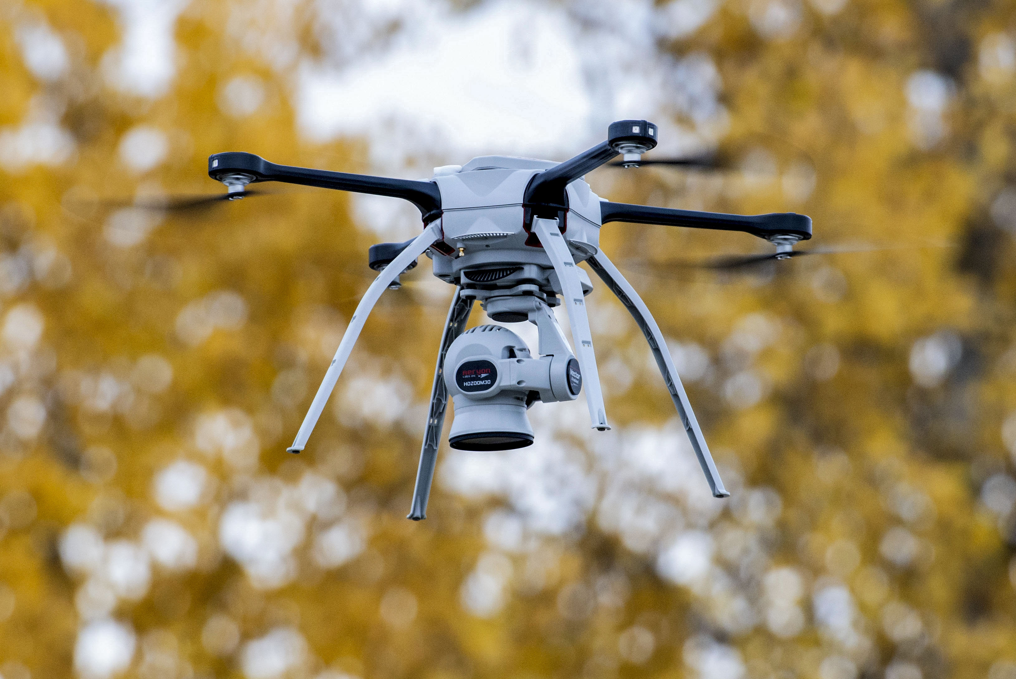 A drone operated by Airmen with the 773d Civil Engineer Squadron flies over a training area while capturing aerial intelligence is support of a readiness and training exercise, Polar Force 20-1, at Joint Base Elmendorf-Richardson, Alaska, Oct. 8, 2019. Designed to test JBER’s mission readiness, Polar Force 20-1 is a two-week exercise that hones Airmen’s skills and experience when facing adverse situations. Airmen refined their contingency tactics, techniques and procedures in support of the Pacific Air Force’s Agile Combat Employment concept of operations. AgileCombat Support excellence yields multi-domain operations success. (U.S. Air Force photo by Alejandro Peña)